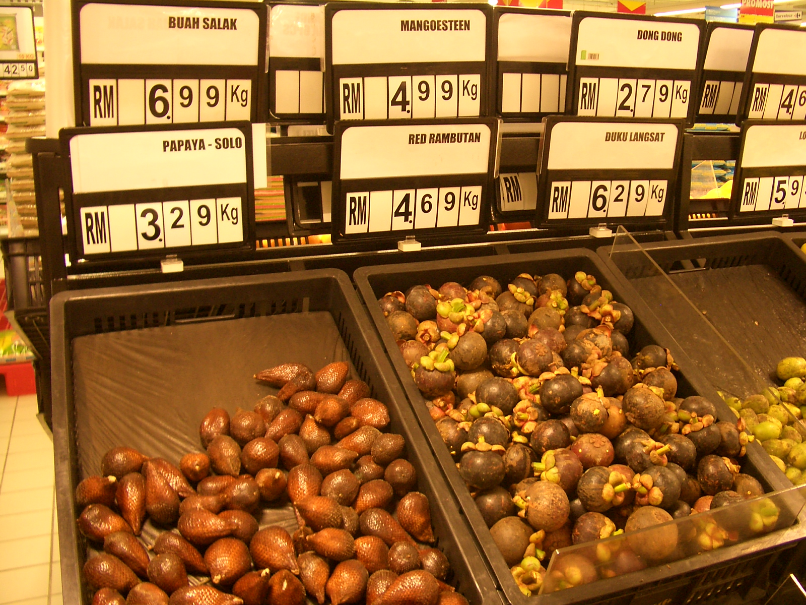 Salak and mangosteen in the Carrefour hypermarket in Melaka